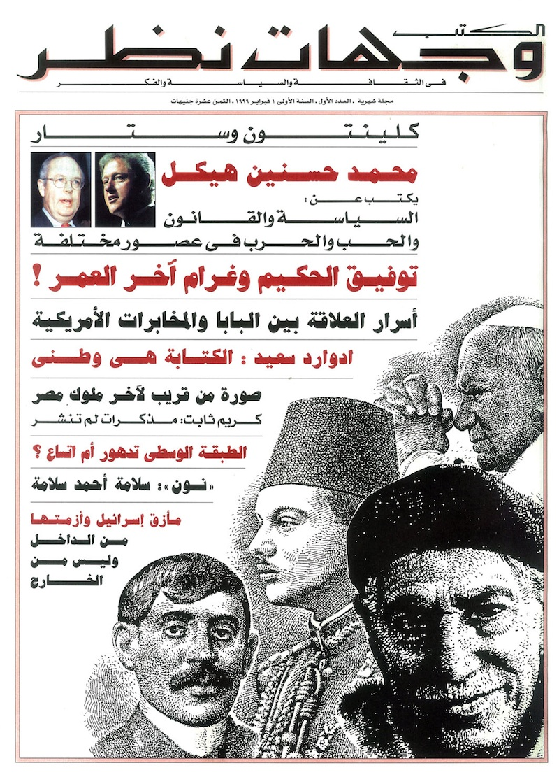 Weghat Nazar Cover 1st Issue